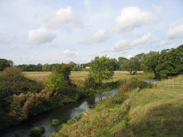 Blythe Valley. Looking north along the River Blythe which makes a horseshoe bend at this point, with the M42 motorway disturbing the tranquillity in the distance.